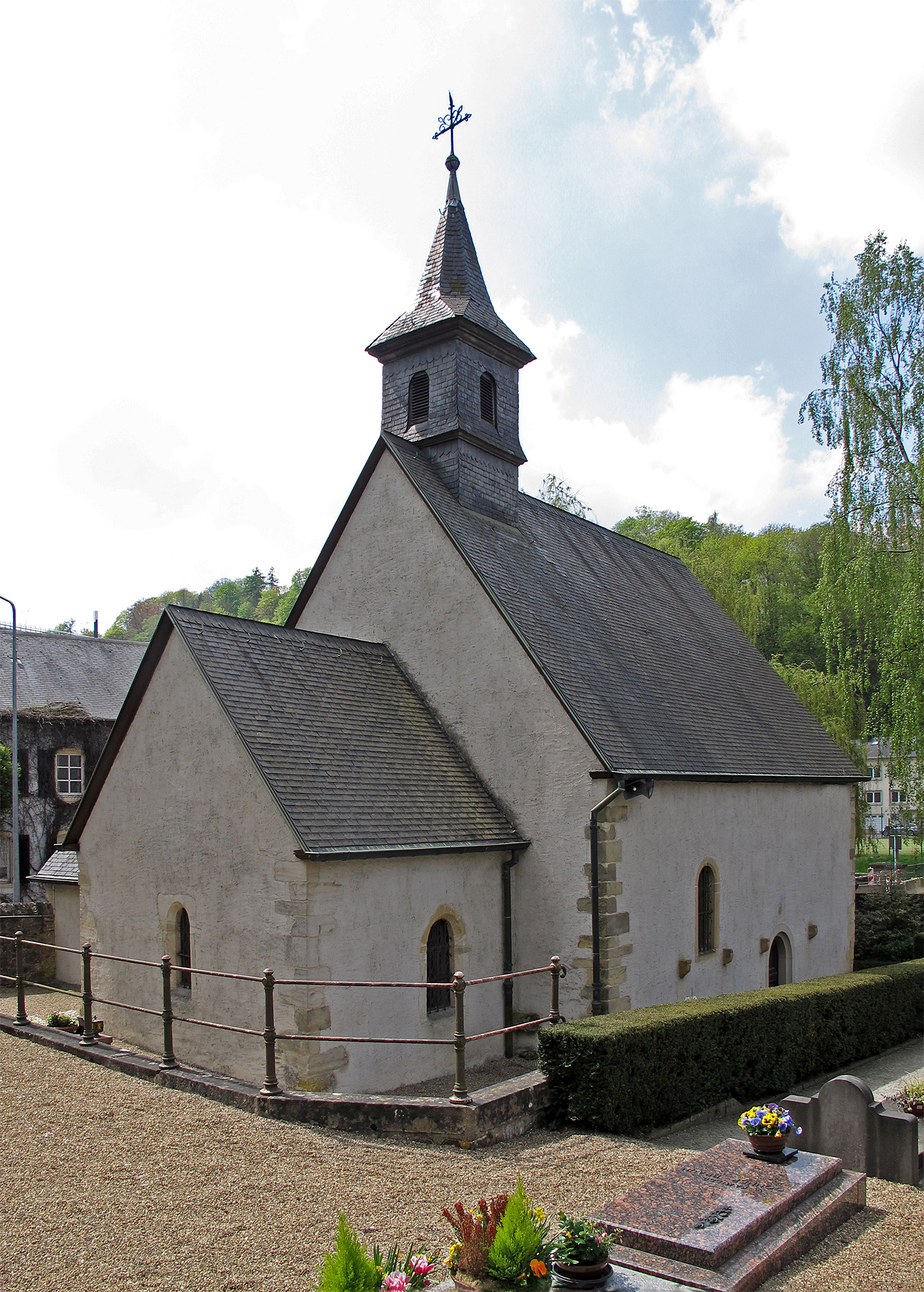 Chapel in Luxembourg-Pfaffenthal (Siechenhof)